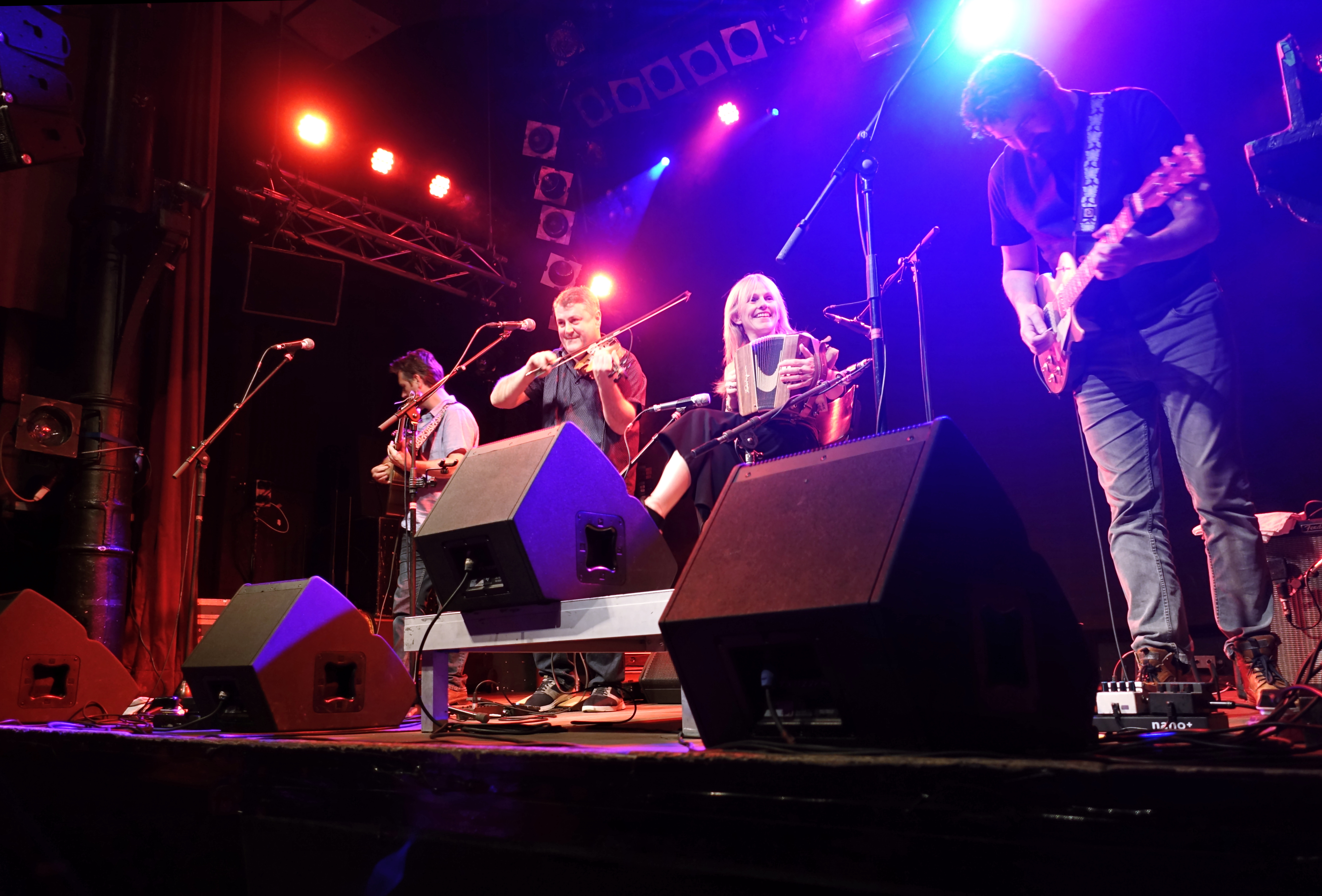 Sharon Shannon and Band, Knust Hamburg, Germany